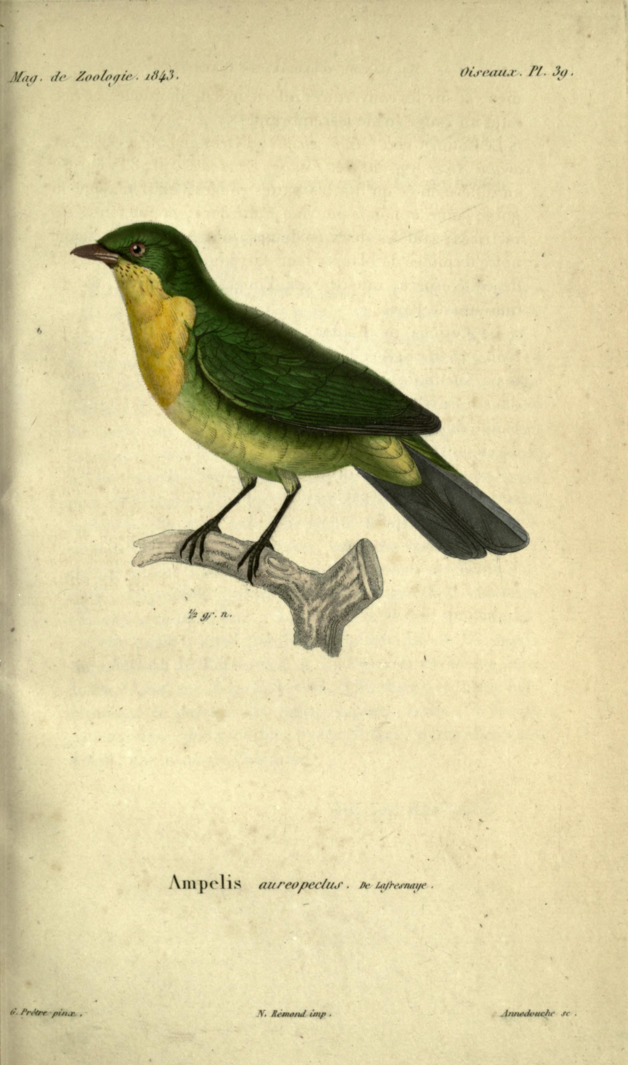 Golden-breasted Fruiteater (Pipreola aureopectus) syn. Ampelis aureopectis